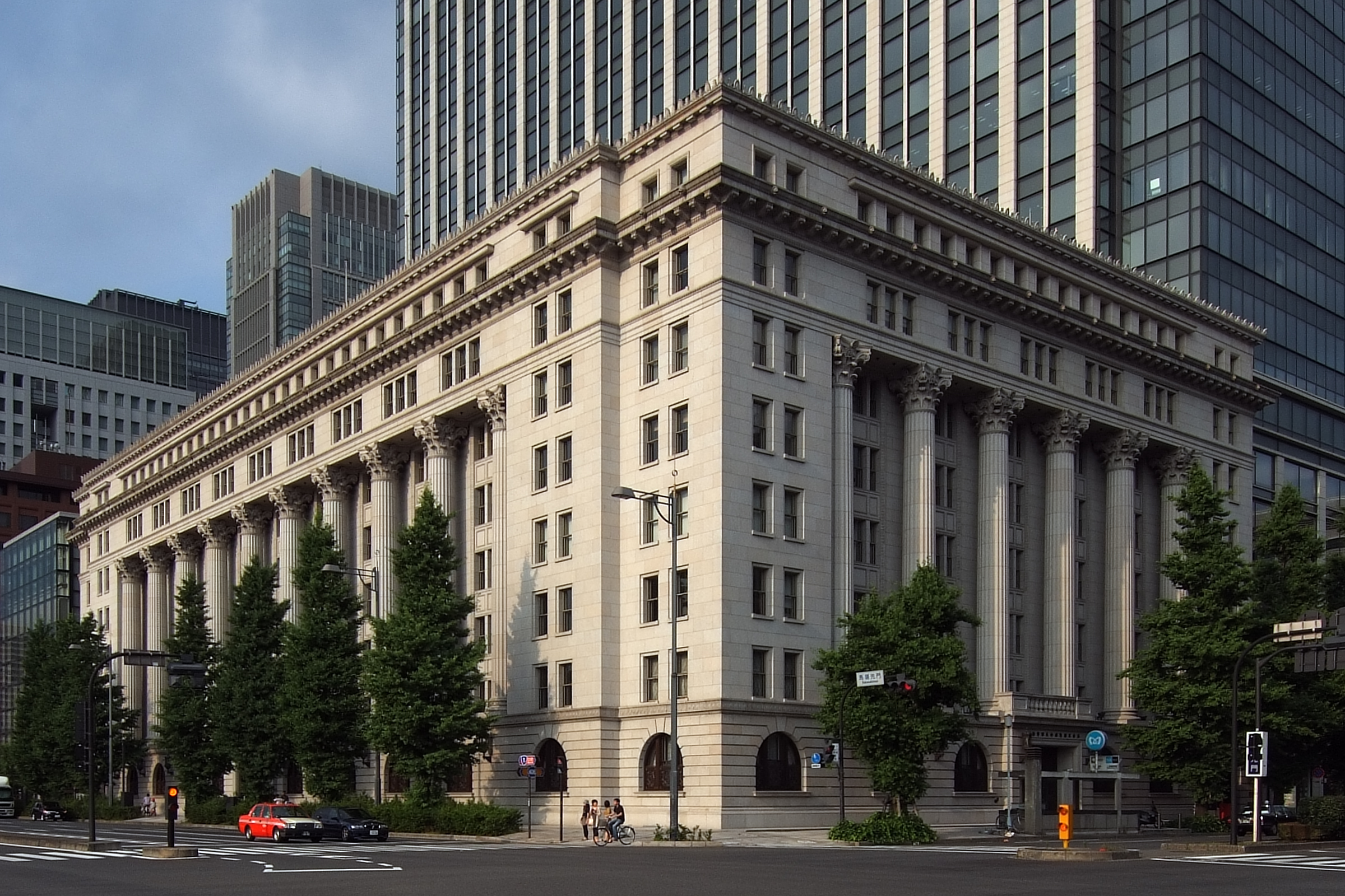 Meiji Yasuda Life Insurance Company Head Office, at Chiyoda-ku Tokyo Japan, design by Shinichiro Okada in 1934.